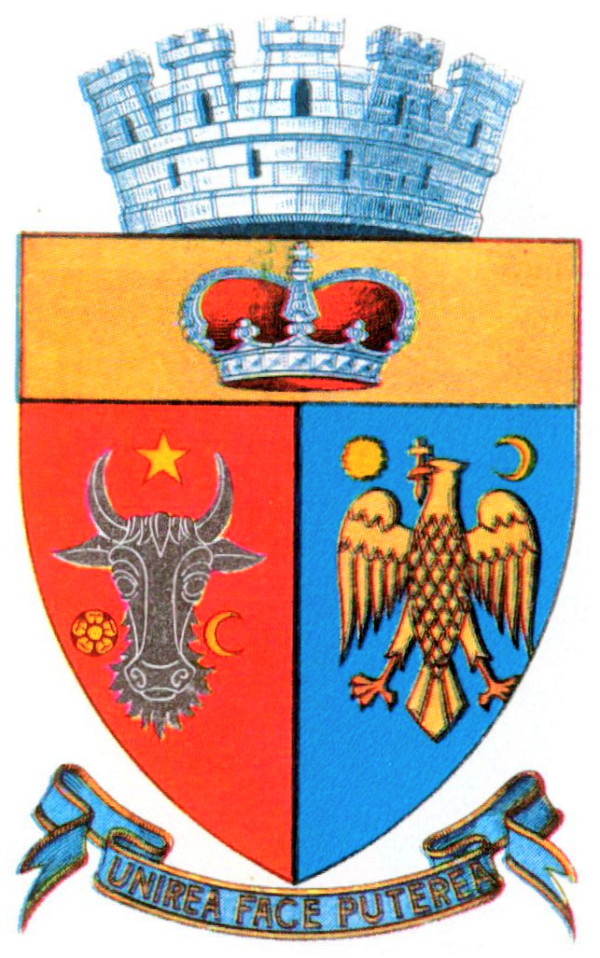 Interwar coat of arms of Focșani, Putna County, Kingdom of Romania.